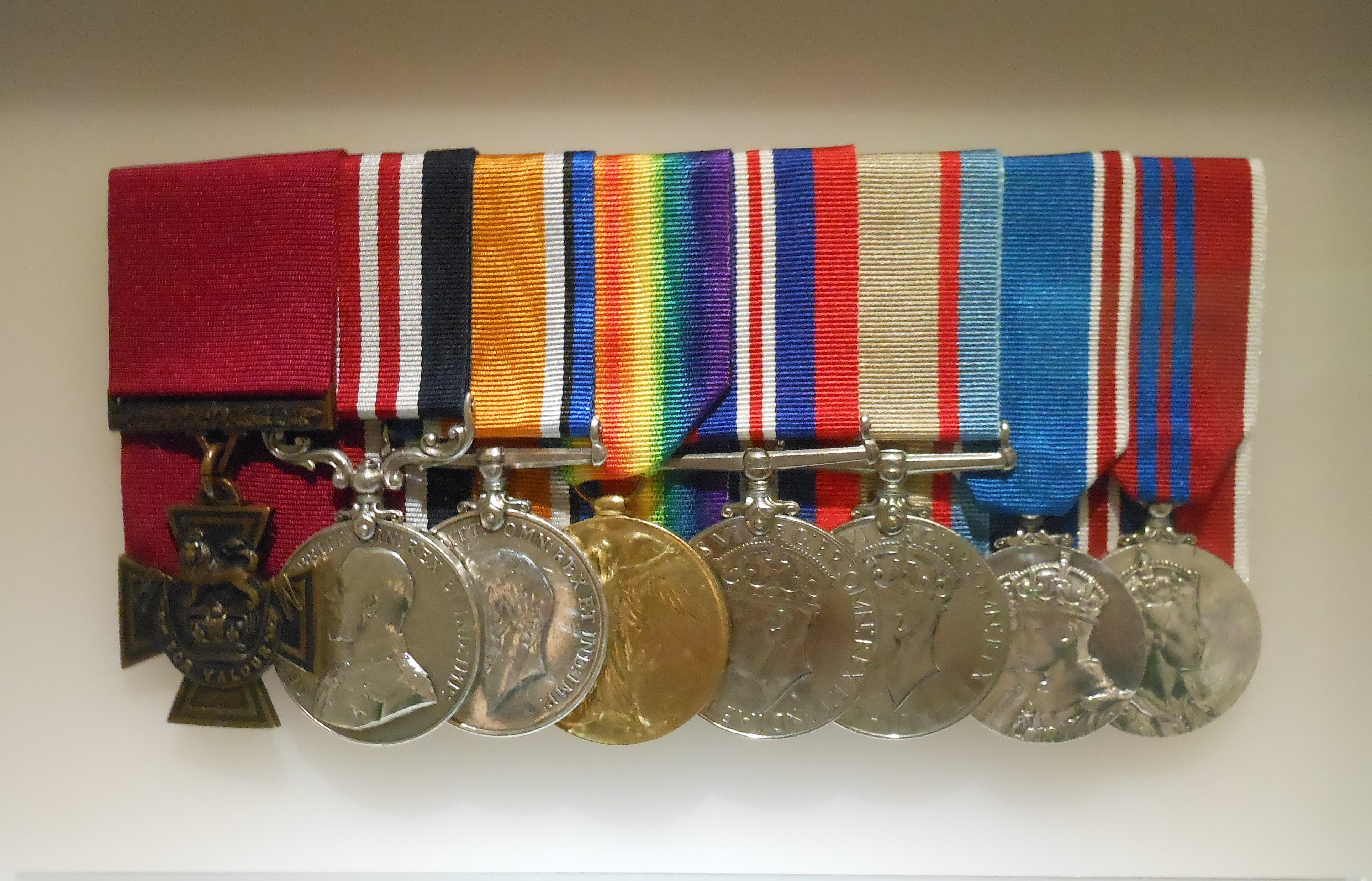 The decorations and medals awarded to George Ingram VC, MM on display at the Australian War Memorial in Canberra. Ingram was an Australian recipient of the Victoria Cross, decorated for his actions in 1918 during the First World War.